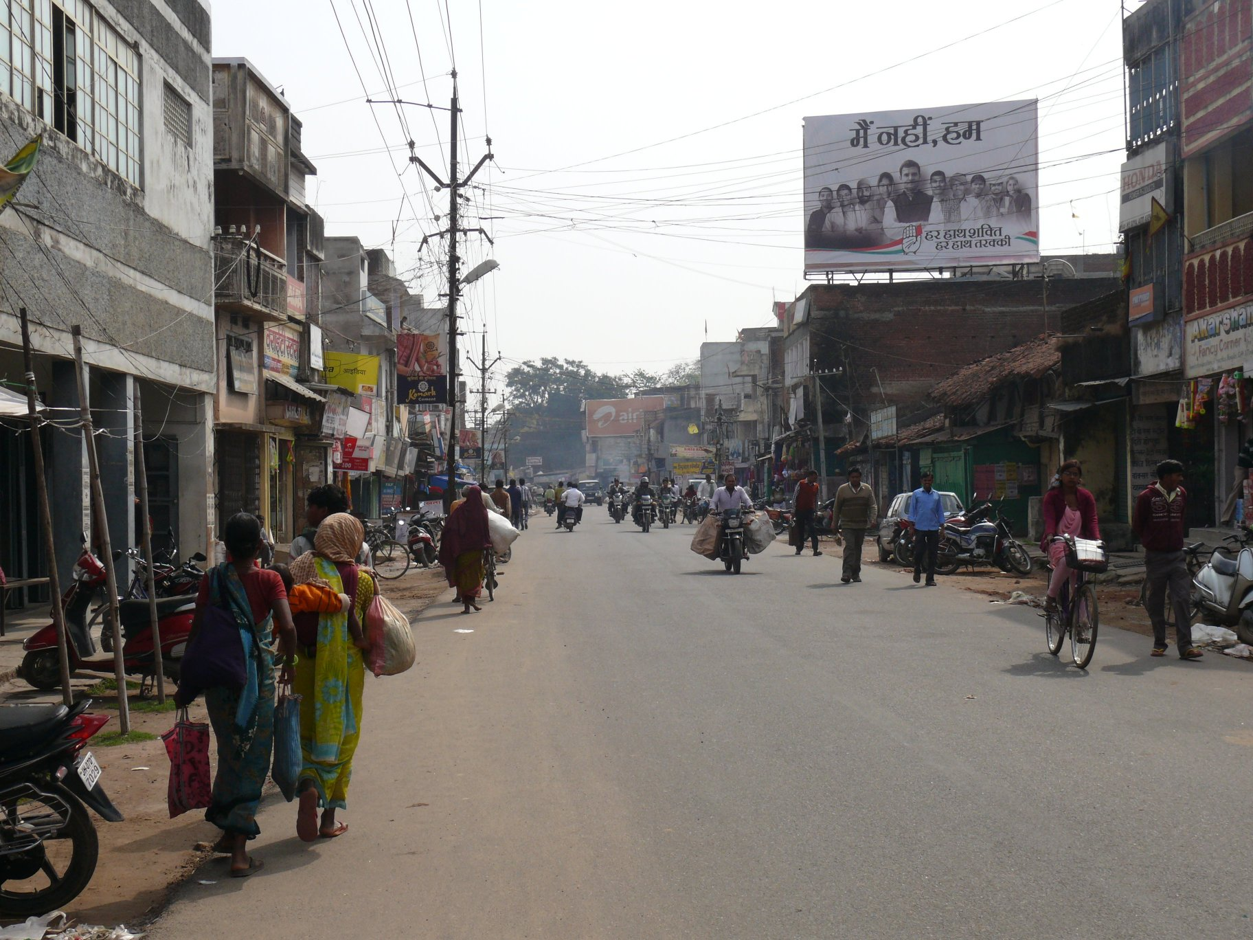 A street in Gumla (Jharkhand, India).